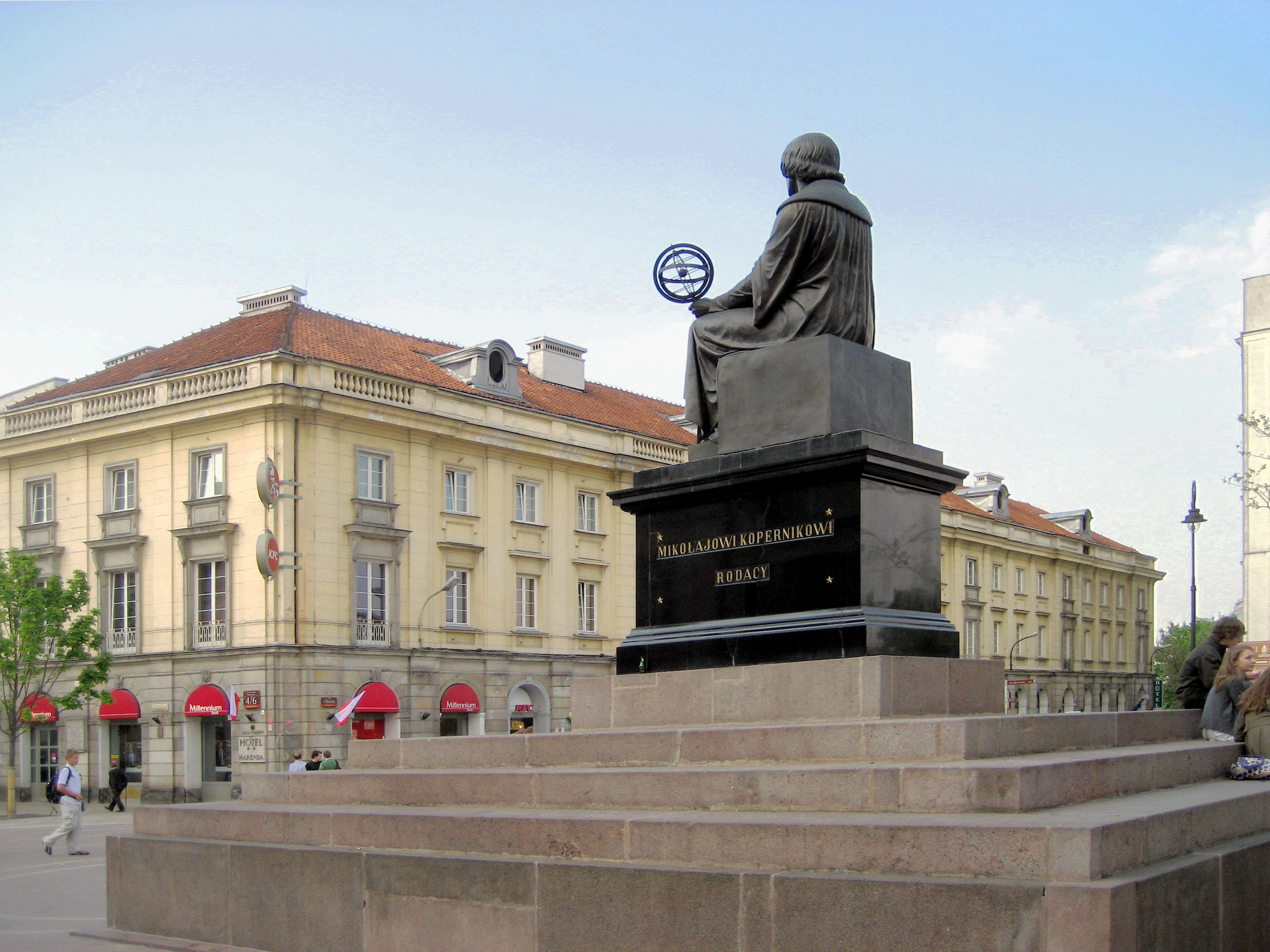 Bertel Thorvaldsen's statue of Nicolaus Copernicus in Warsaw, Poland. Inscription on the base (in Polish): "To Nicolaus Copernicus, from his compatriots."